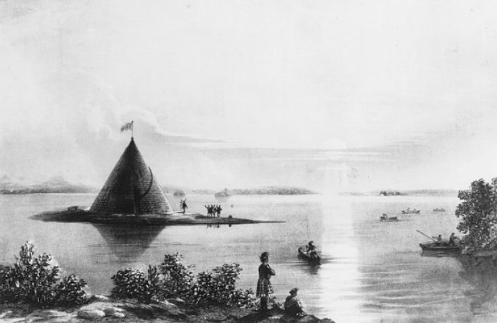 Large cairn erected by the Glengarry militia to commemorate the services of Sir John Colborne, commander-in-chief of the armed forces during the Upper Canada Rebellion. Erected During the Summers of 1840, 1841 and 1842. The Cairn still exists, at the mouth of the Raisin River near South Lancaster, Ontario.